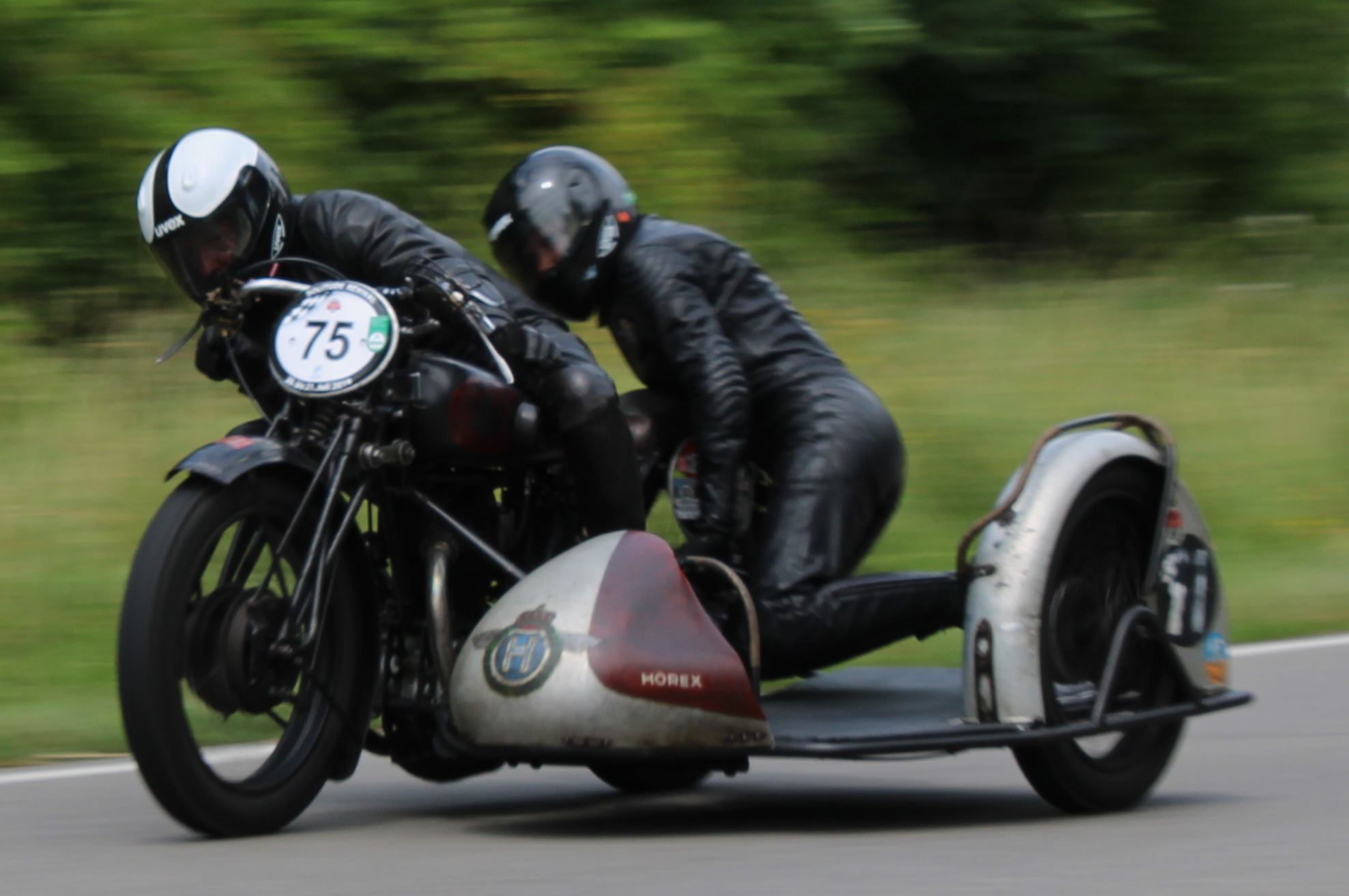 Horex SS64 (1935) at Solitude Revival 2019